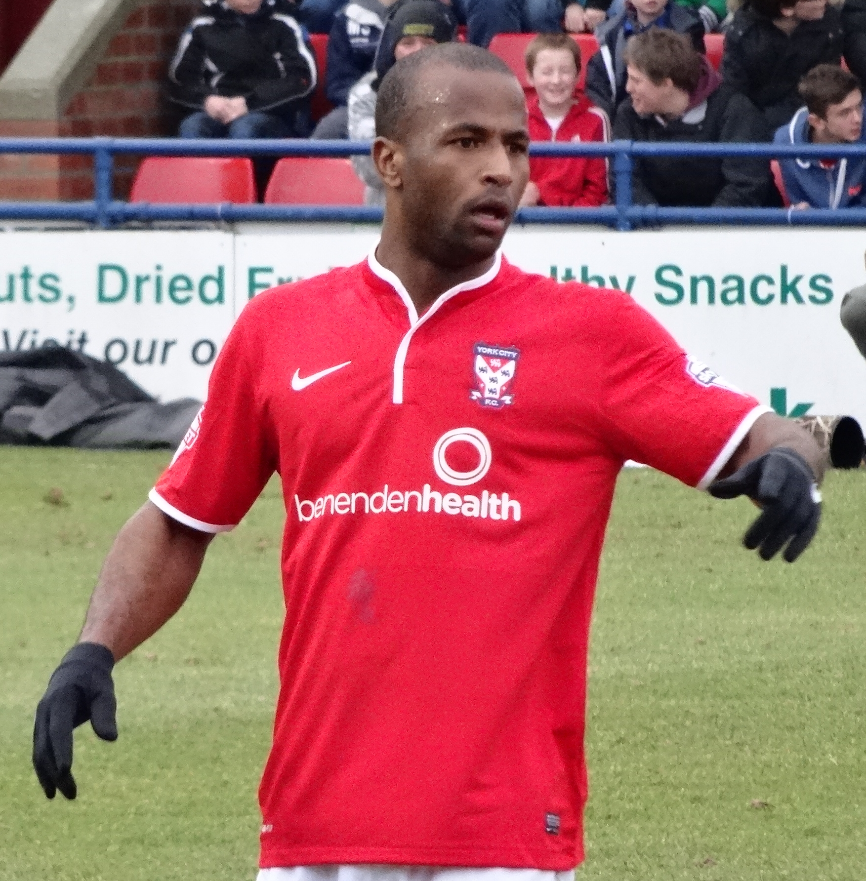 Stéphane Zubar playing for York City against Exeter City at Bootham Crescent, York on 28 February 2015